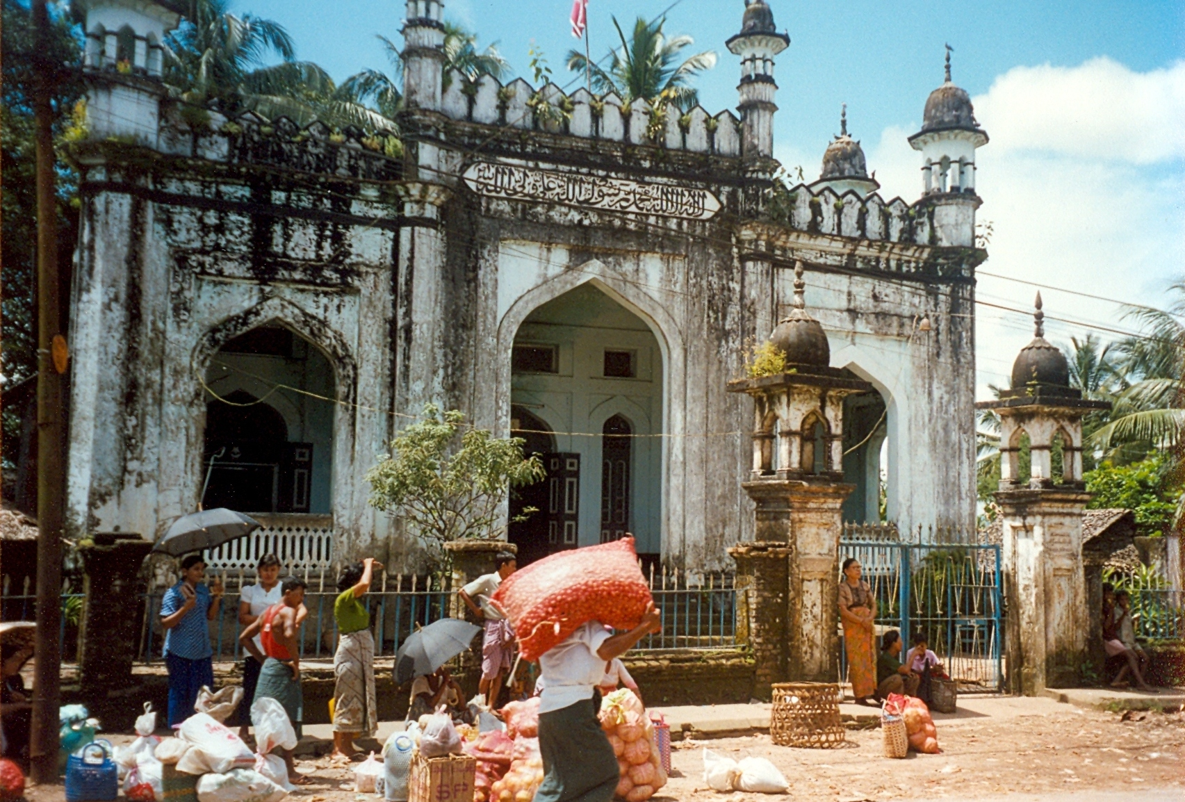 Moghul Shah Mosque, Moulmein, Burma.